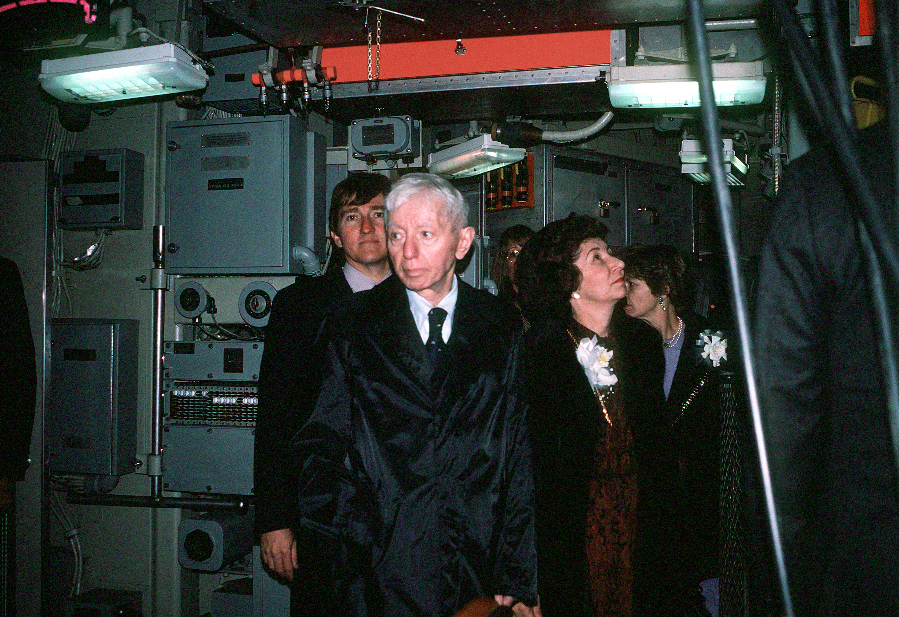 ADM Hyman G. Rickover, deputy assistant secretary for naval reactors, Department of Energy, foreground; Mrs. Rickover and Secretary of the Navy John F. Lehman Jr. tour and nuclear-powered ballistic missile submarine USS OHIO (SSBN-726) following the commissioning ceremony. The OHIO was built by General Dynamics Corp